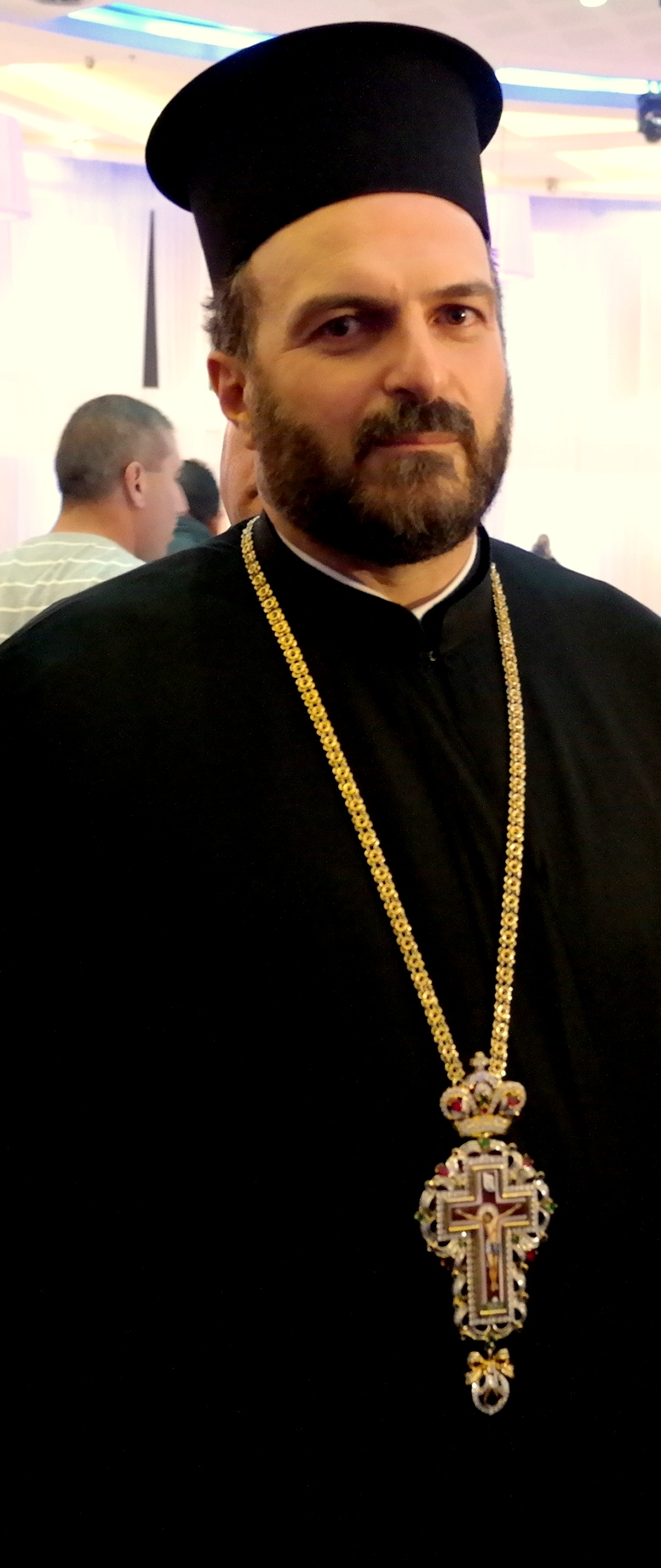 Father Gabriel Naddaf, December 2014 - derivative work of Father Gabriel with a family.JPG by Maor X